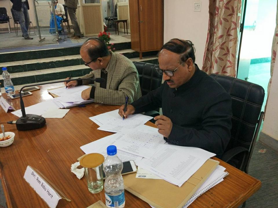 Dr harit as chairperson